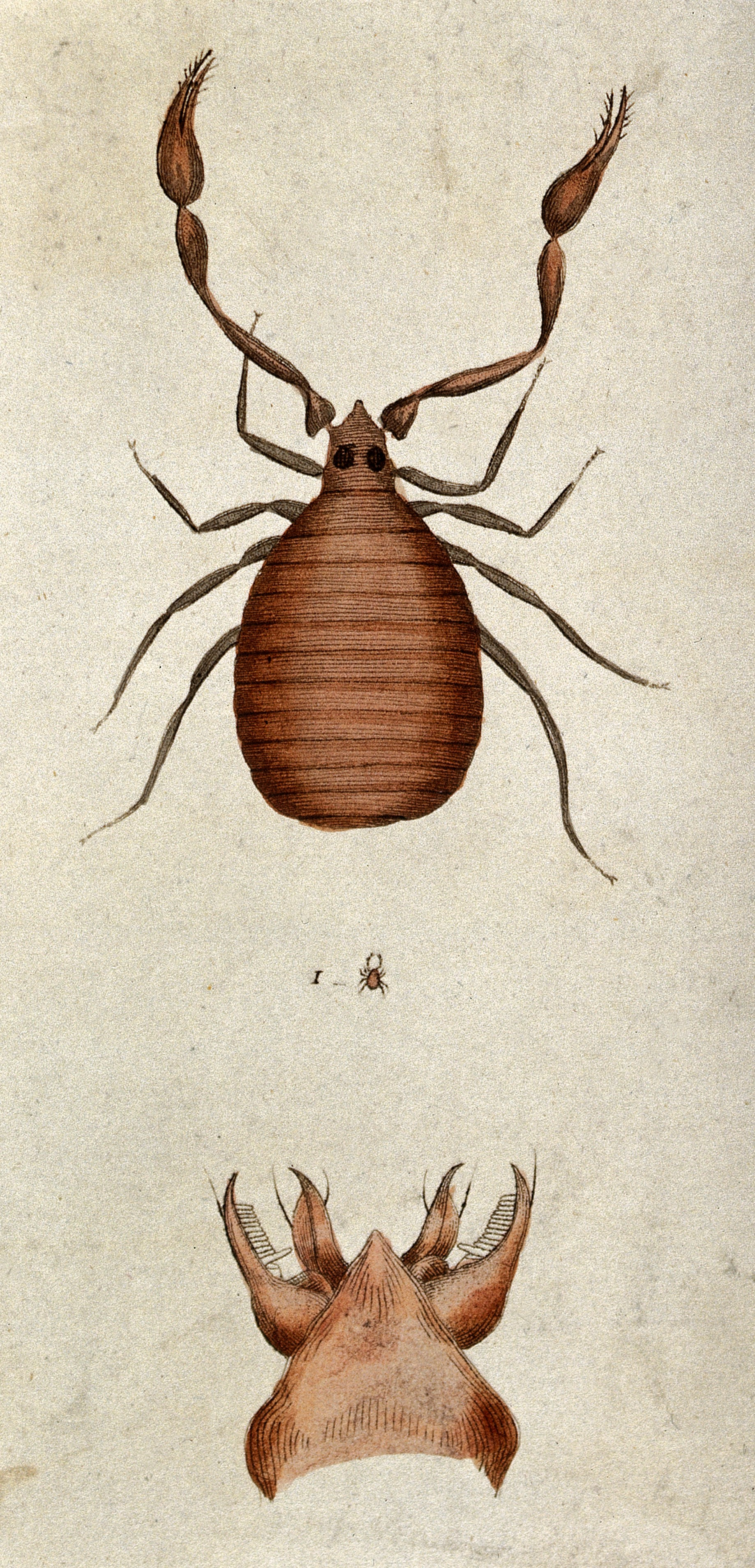 A book scorpion. Coloured etching. Iconographic Collections